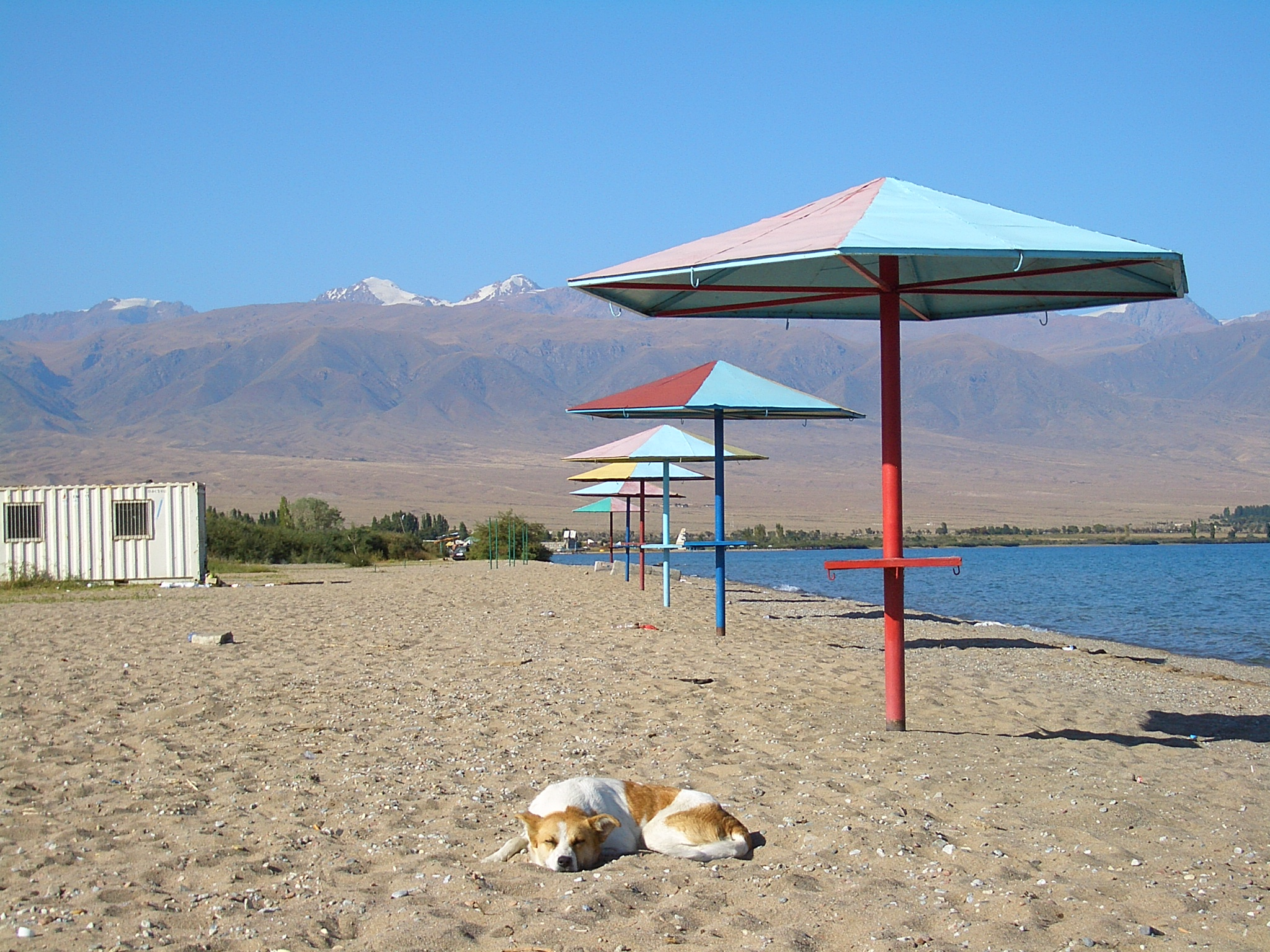 On the beach at Kosh Köl, on Lake Issyk Kul